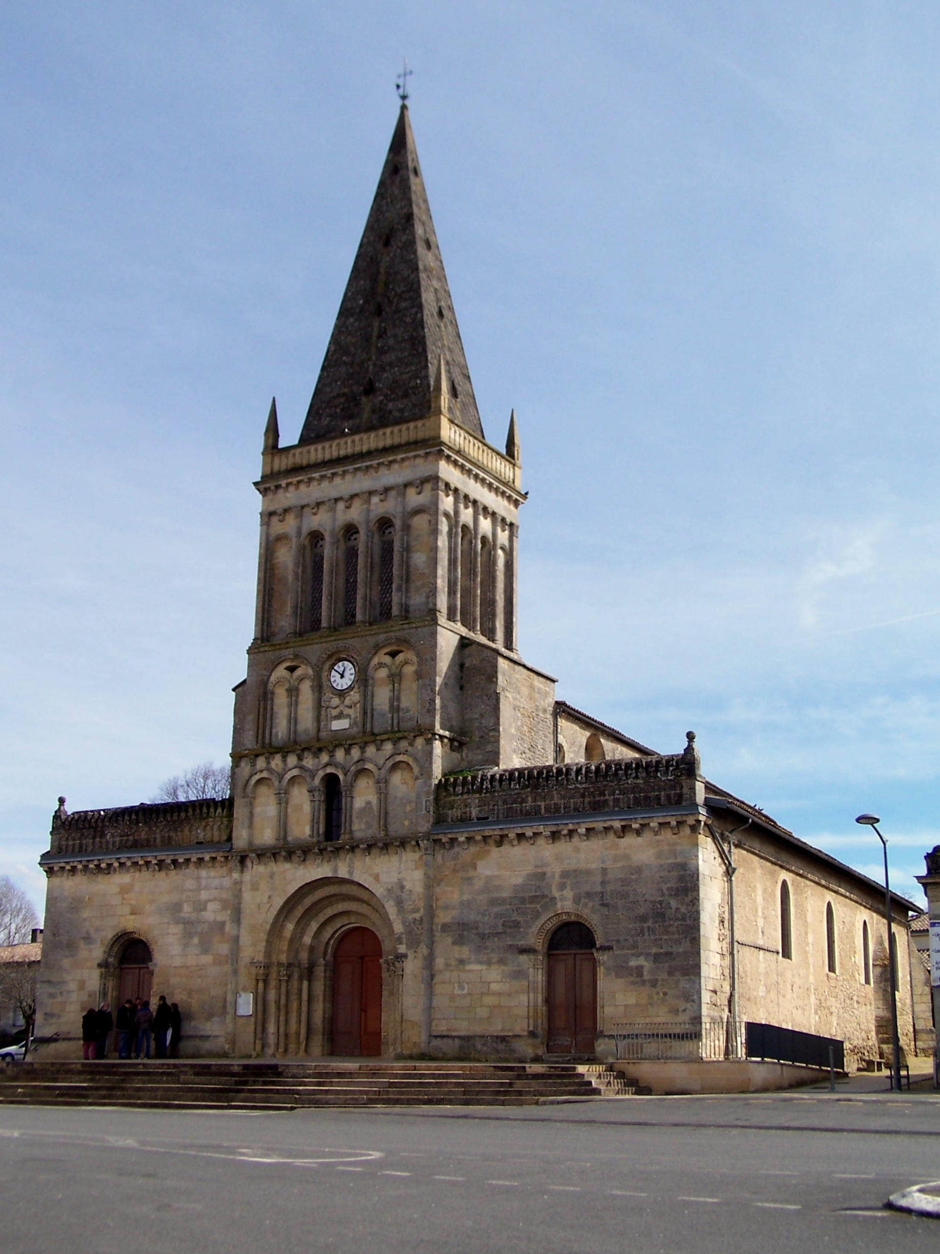 Saint Peter church of Ambarès-et-Lagrave (Gironde, France)